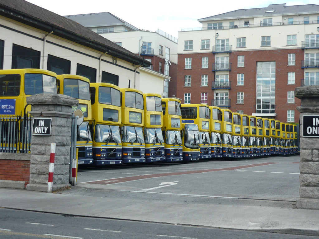 A repeat of the iconic bus foto of Ringsend which features in the 1967 Ian Allen book, Dublin Buses